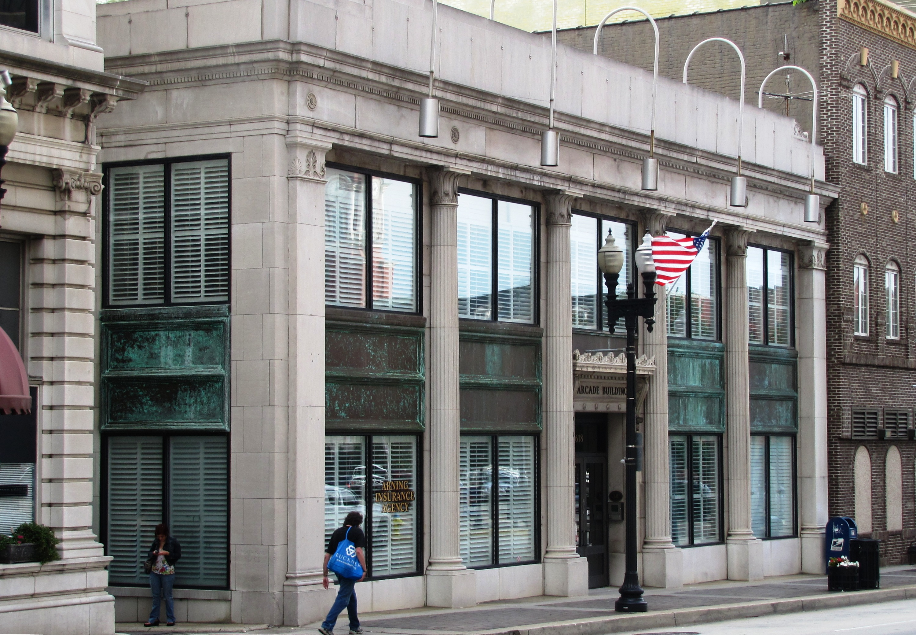 The Knoxville Journal Arcade, built in 1924, at 618-620 S. Gay Street in Knoxville, Tennessee, USA. This building once housed the offices of the Knoxville Journal.